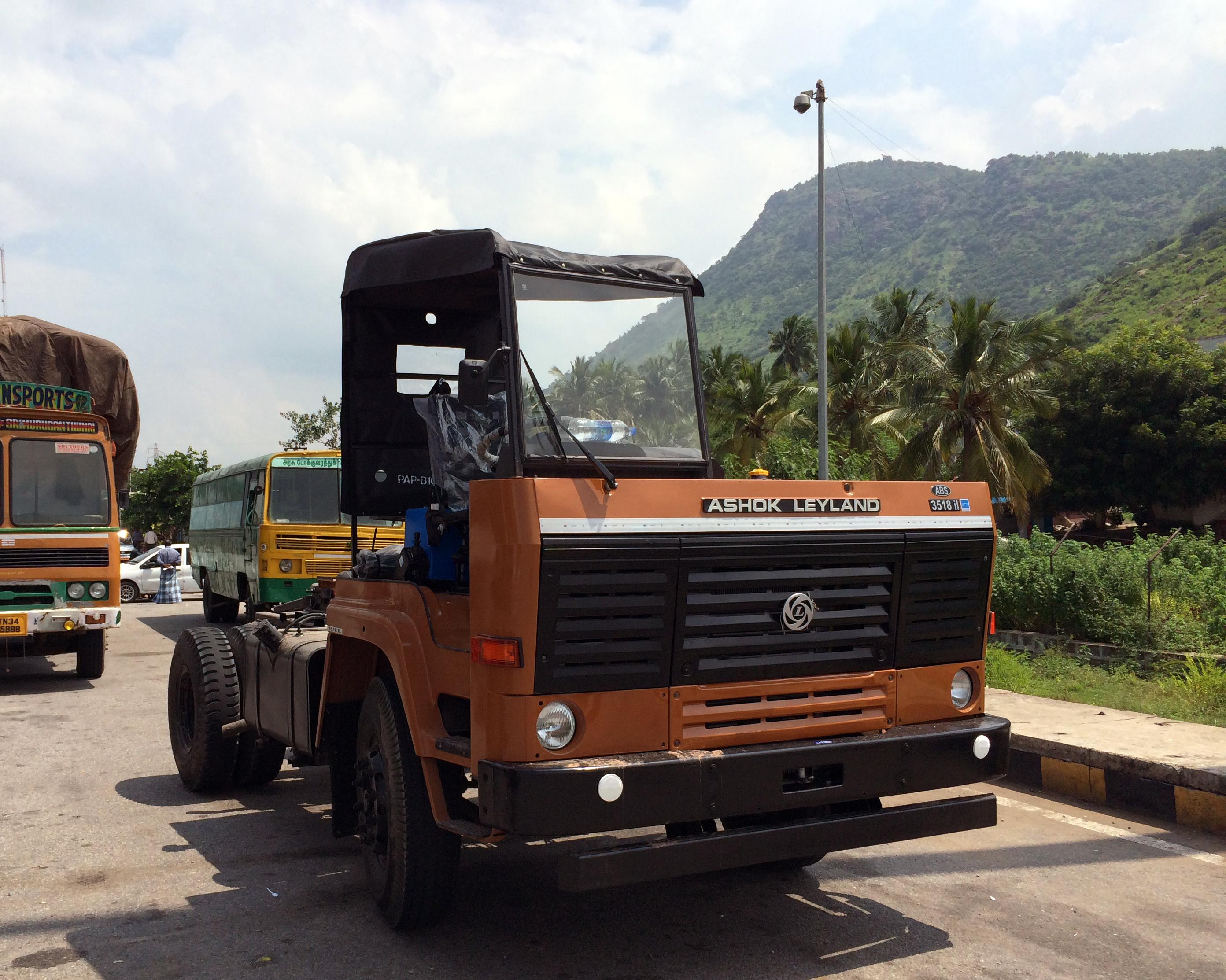 2014 Ashok Leyland 3518iL Tractor en-route to showroom.